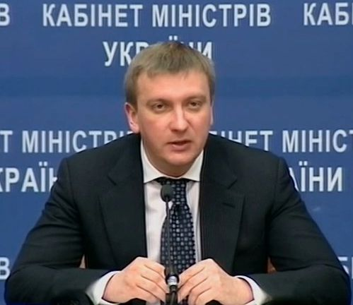 Pavlo Petrenko, Ukrainian politician, jurist, Minister of Justice of Ukraine